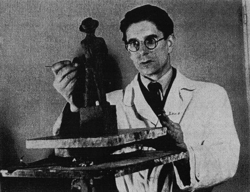 Sculptor Ben Renvall casting Jussi statue of plaster.